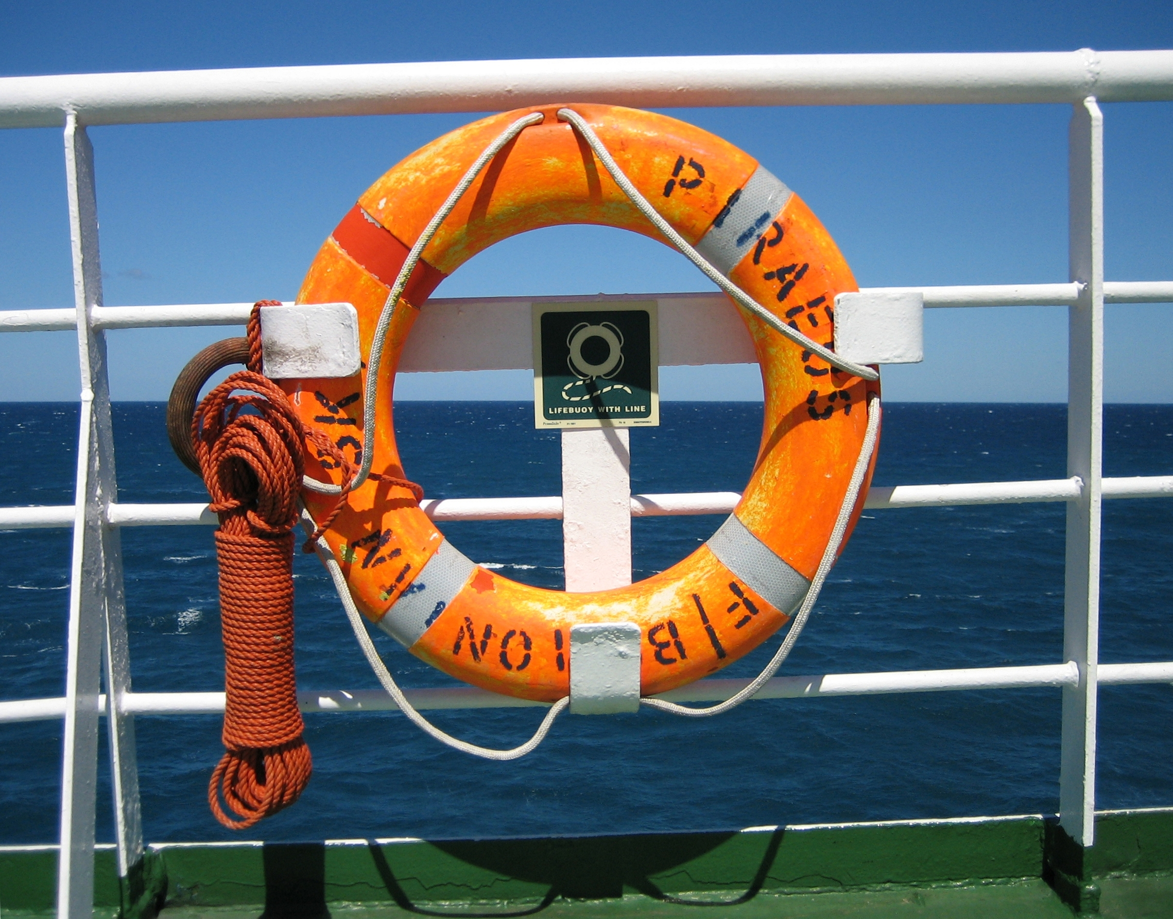 Life preserver on the boat Ionian Sky, with the horizon adjusted for excess tilt.